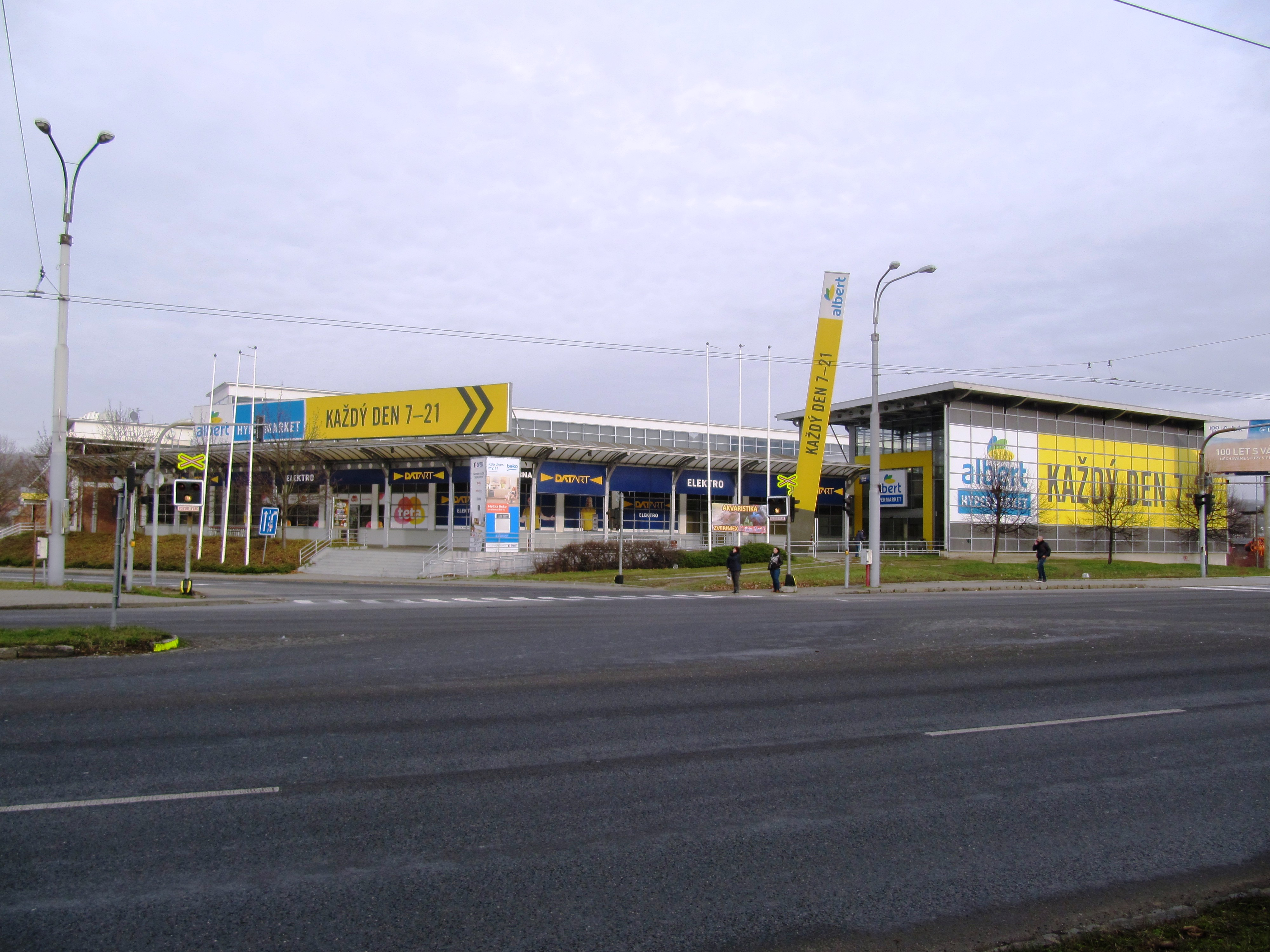 Zlín, Czechia, part Prštné.